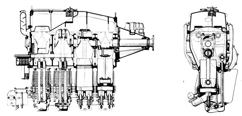 Argus As 8 2-view drawing from L'Aerophile Salon 1932